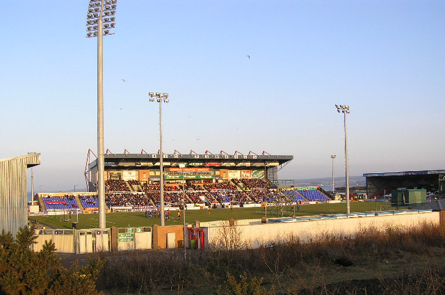 The Caledonian Stadium in Inverness, Scotland. Home of Inverness Caledonian Thistle F.C..